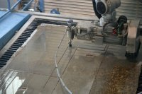 Industrial saw robot waterjet cutting kitchen countertops from a granite slab